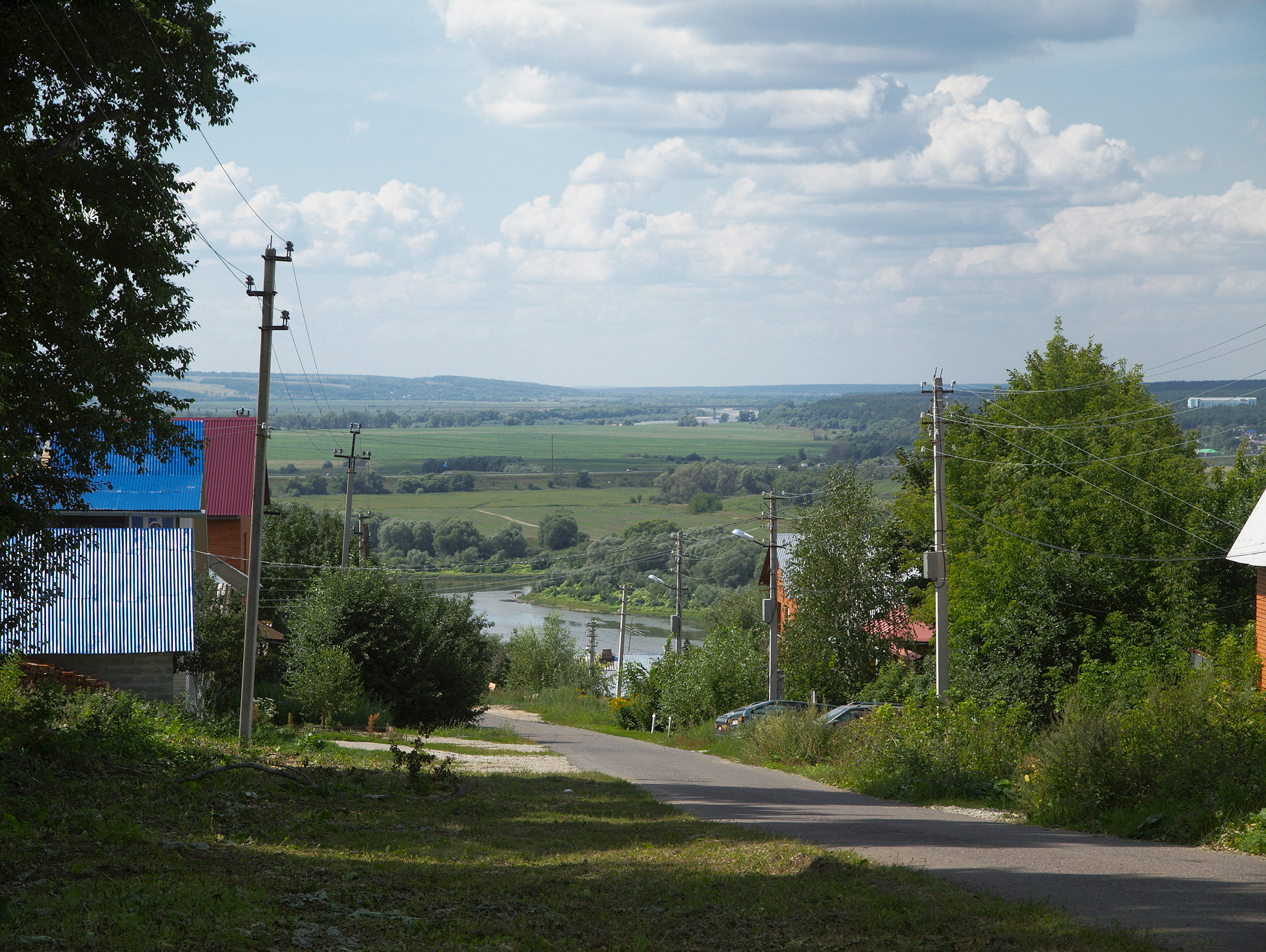 A view of the Oka River from Svobody Street in Kashira.